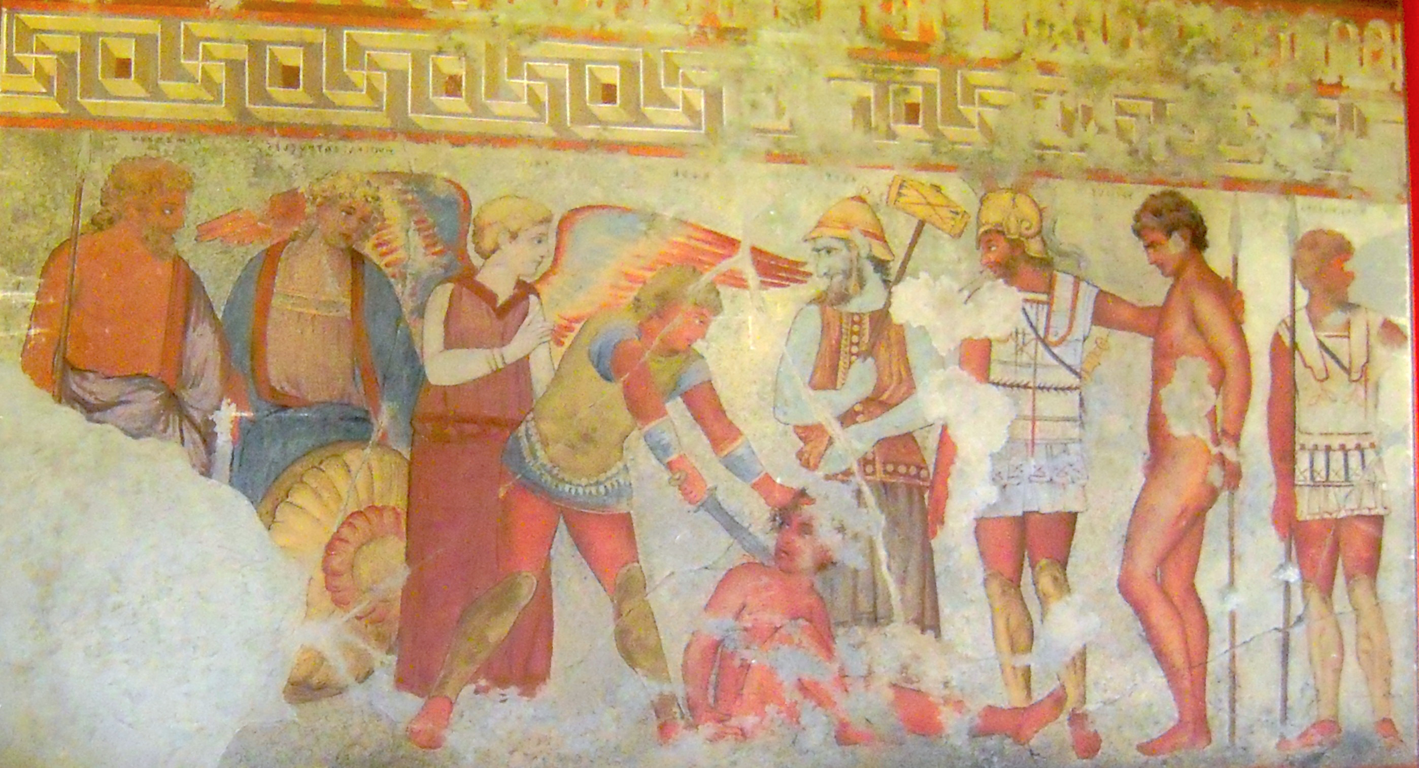 Fresco in the François Tomb.